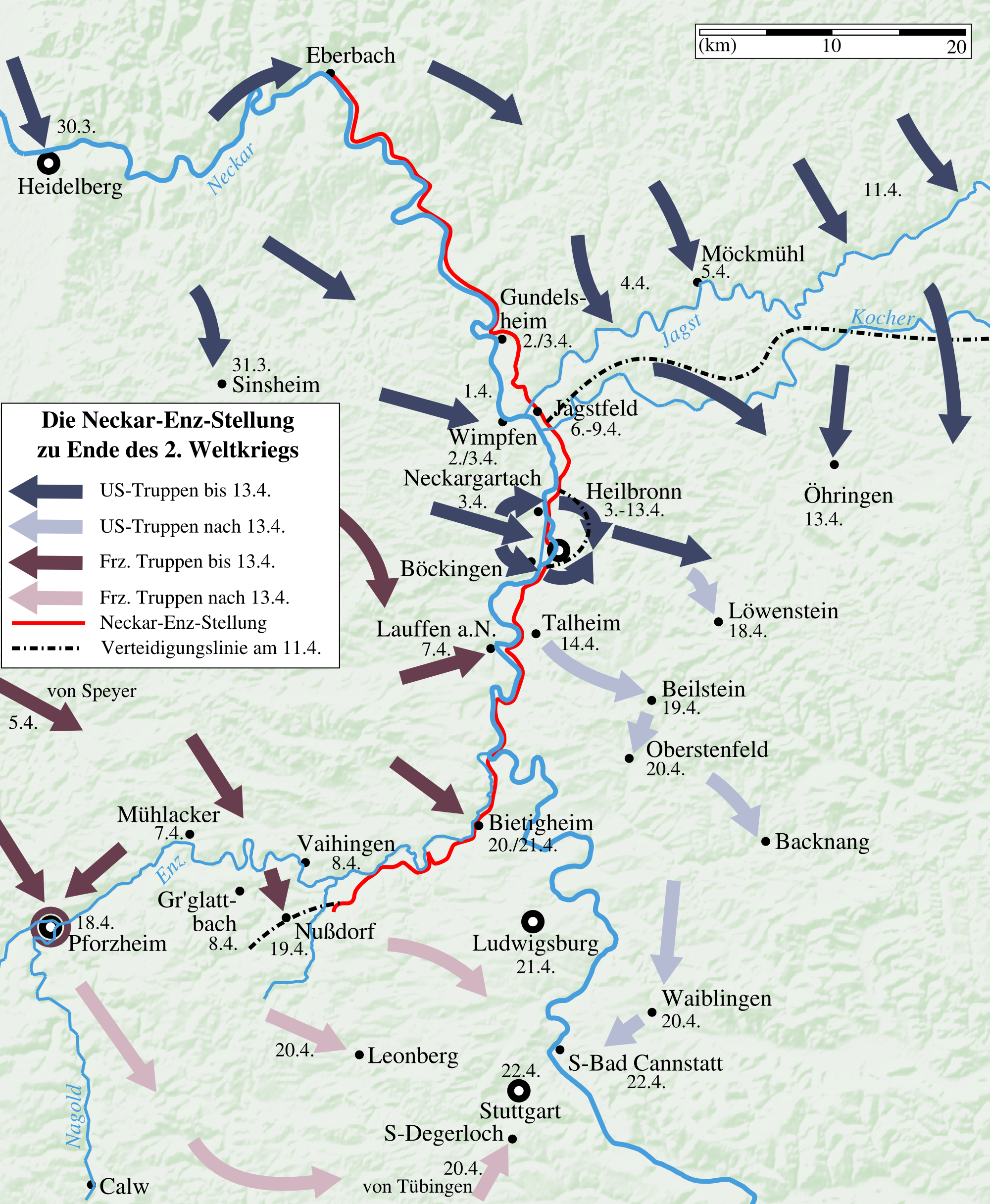 map of end of 2nd world war at Neckar-Enz bunker line.